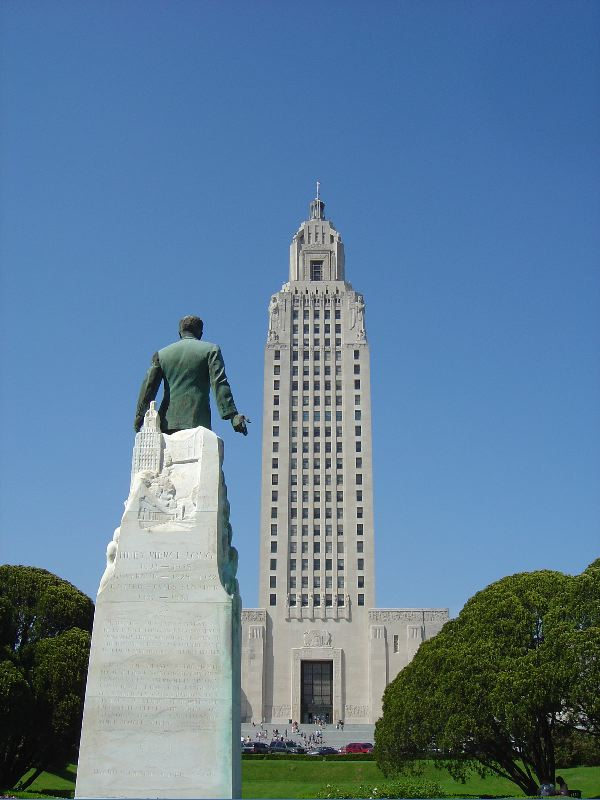 Statue of Huey Long with the Louisiana State Capitol in background